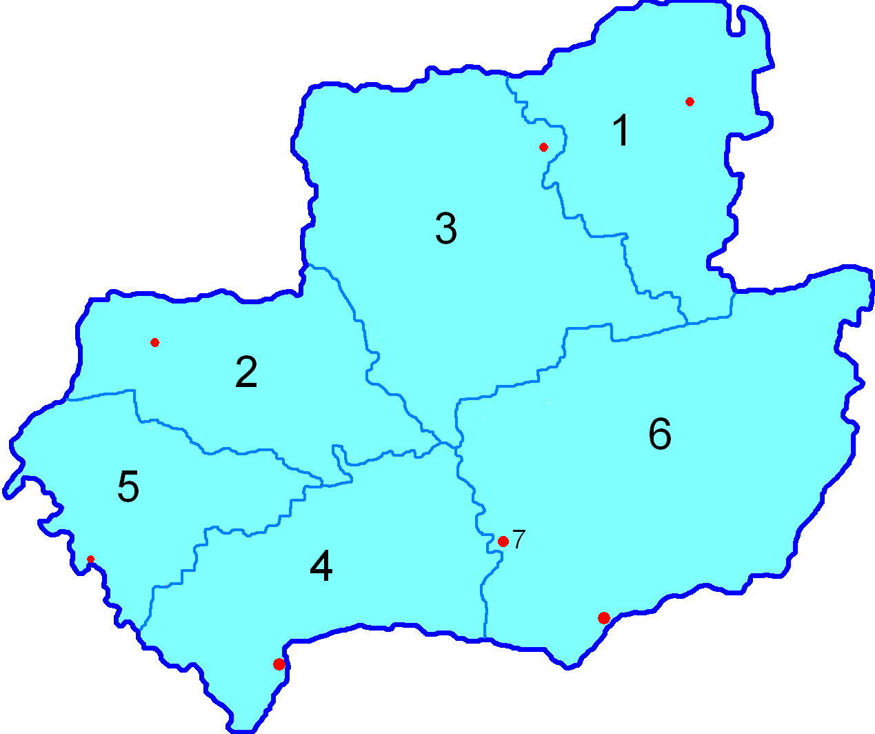 Brockhaus and Efron Encyclopedic Dictionary